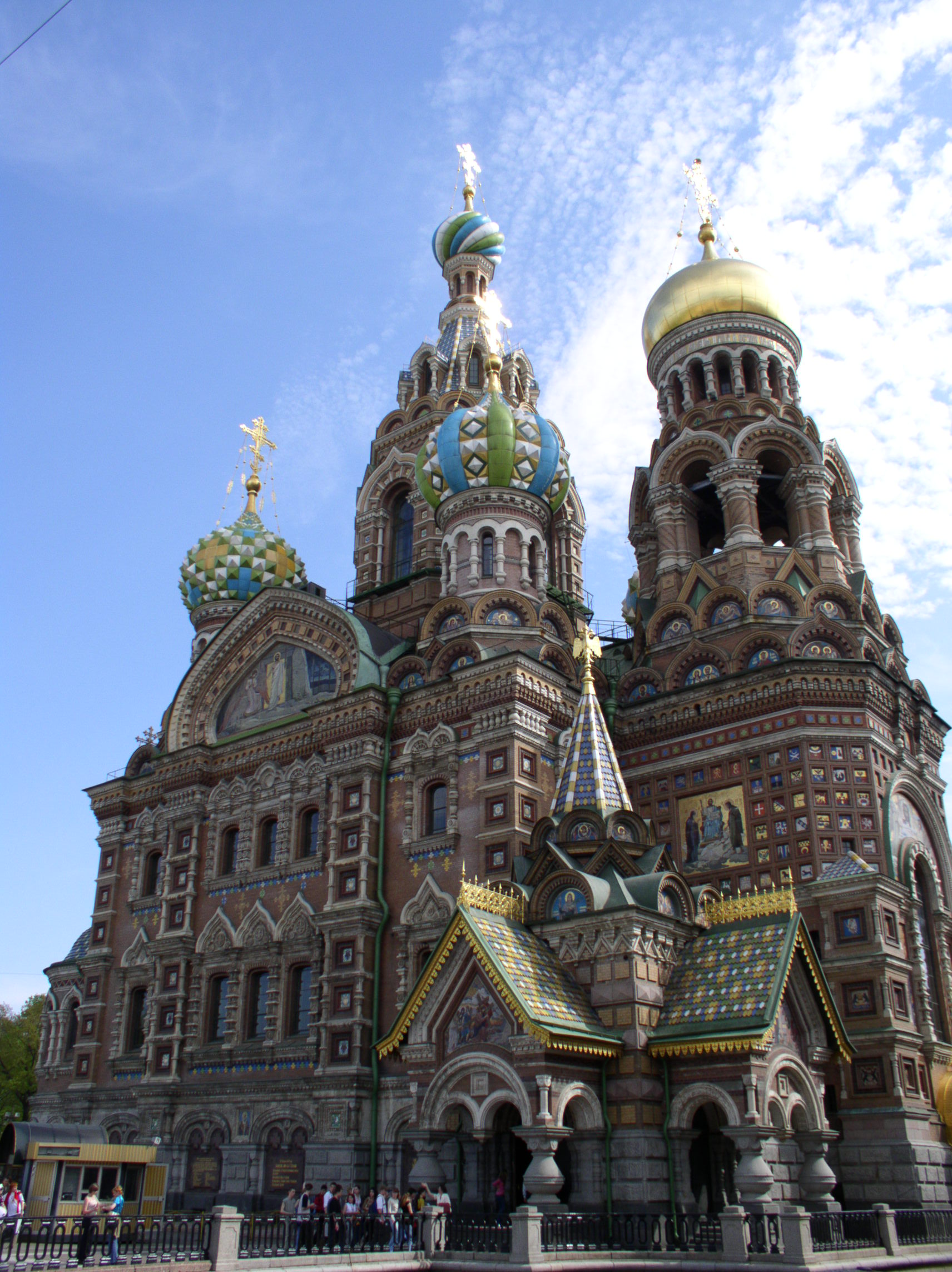 Church of the Savior on Blood in Saint Petersburg. May 26, 2003.